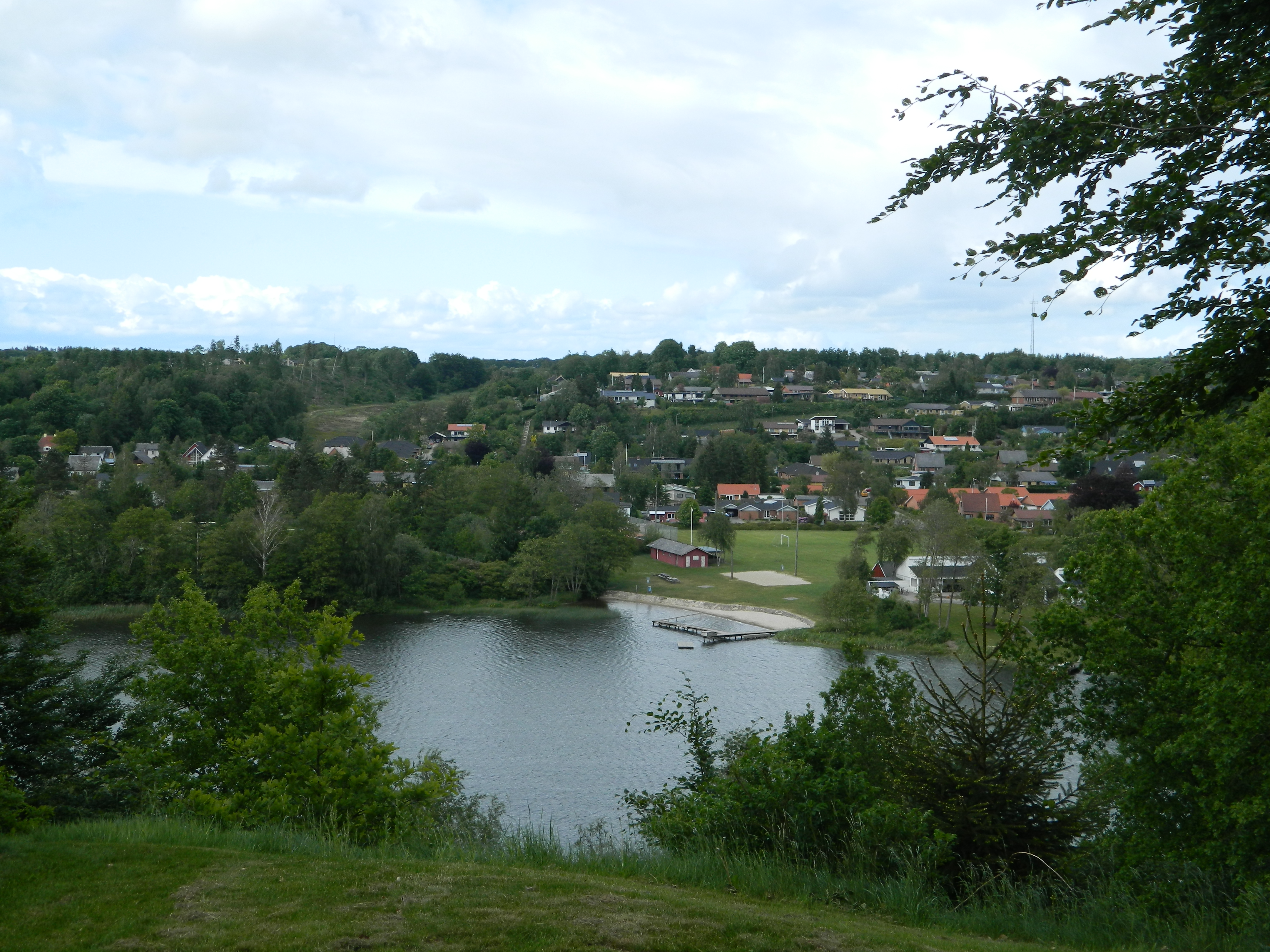 View of Bryrup behind Lake Langso